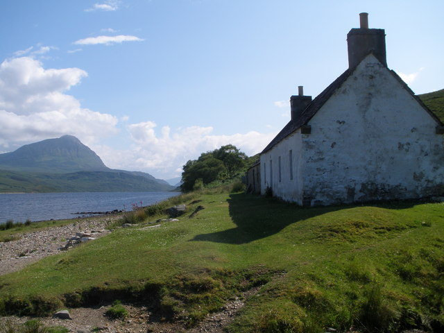 Cottage at Arnaboll,Loch Hope. Ben Hope in the background